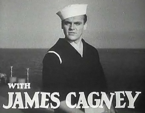 screenshot of James Cagney from the film Here Comes the Navy